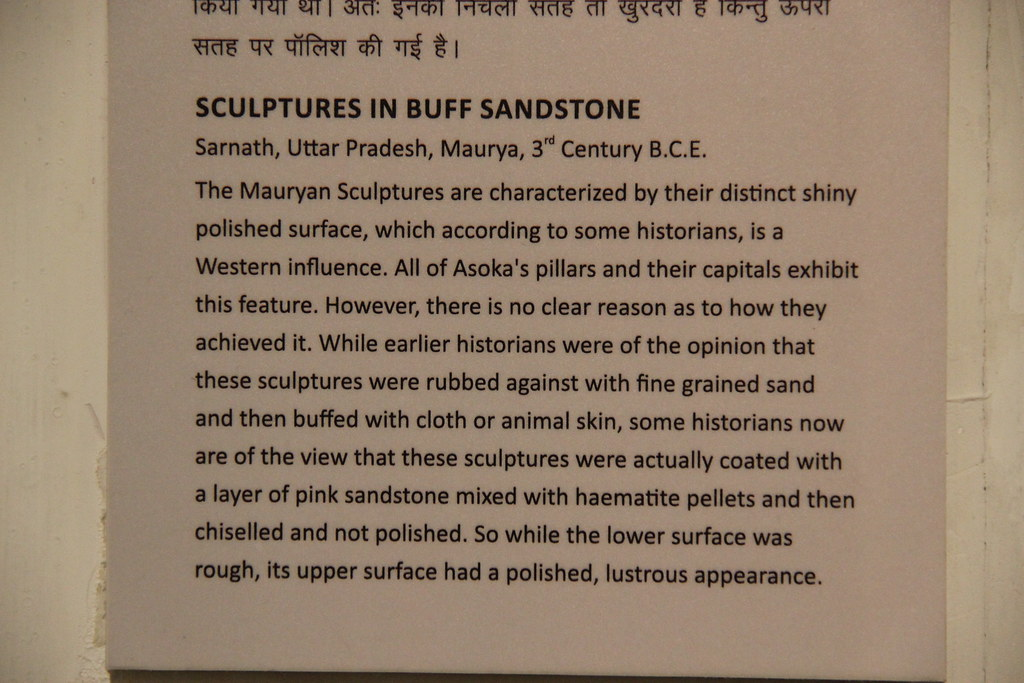 Maurya, Shunga and Satavahana Arts Gallery, India National Museum, New Delhi.